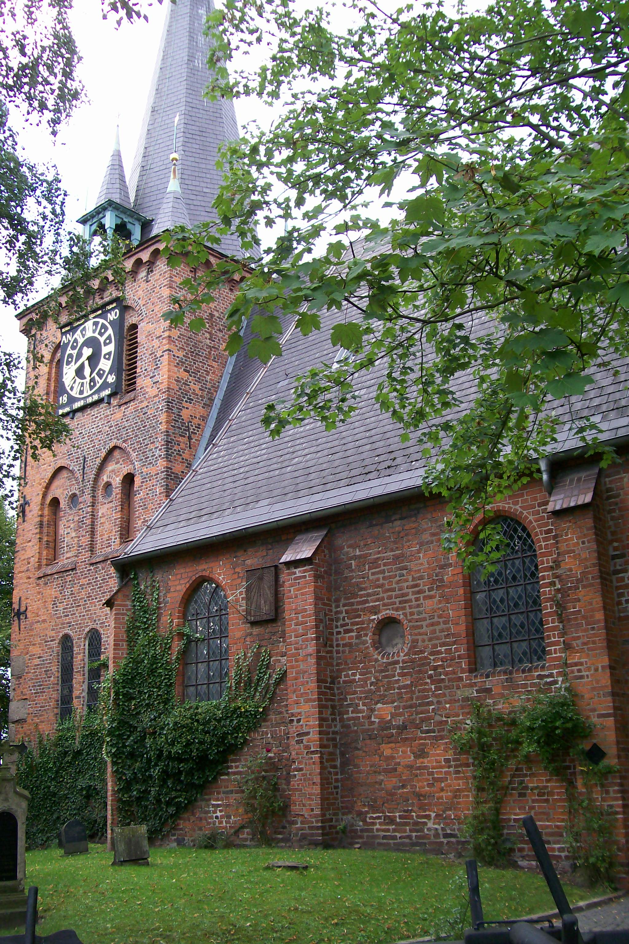 St. Andreas Schlutup, church in Lübeck-Schlutup, built in 1436, brick gothic